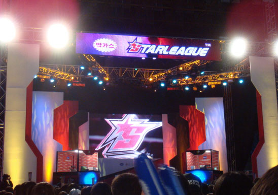 Bacchus Starleague Final